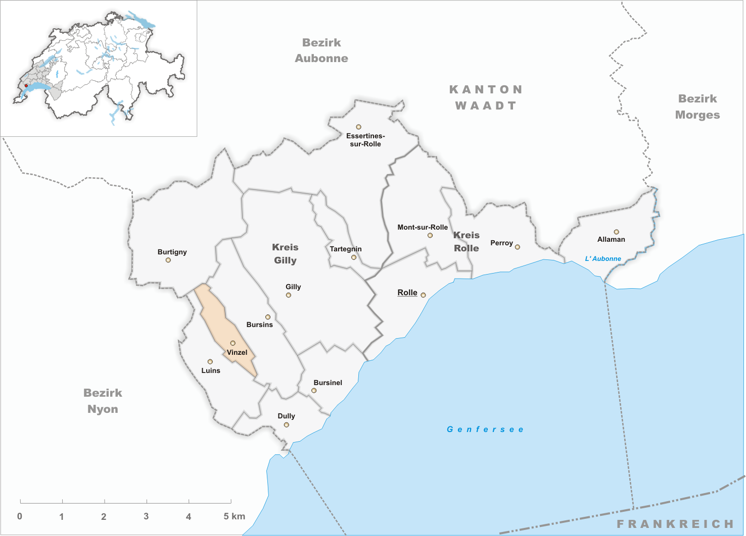 Municipality Vinzel